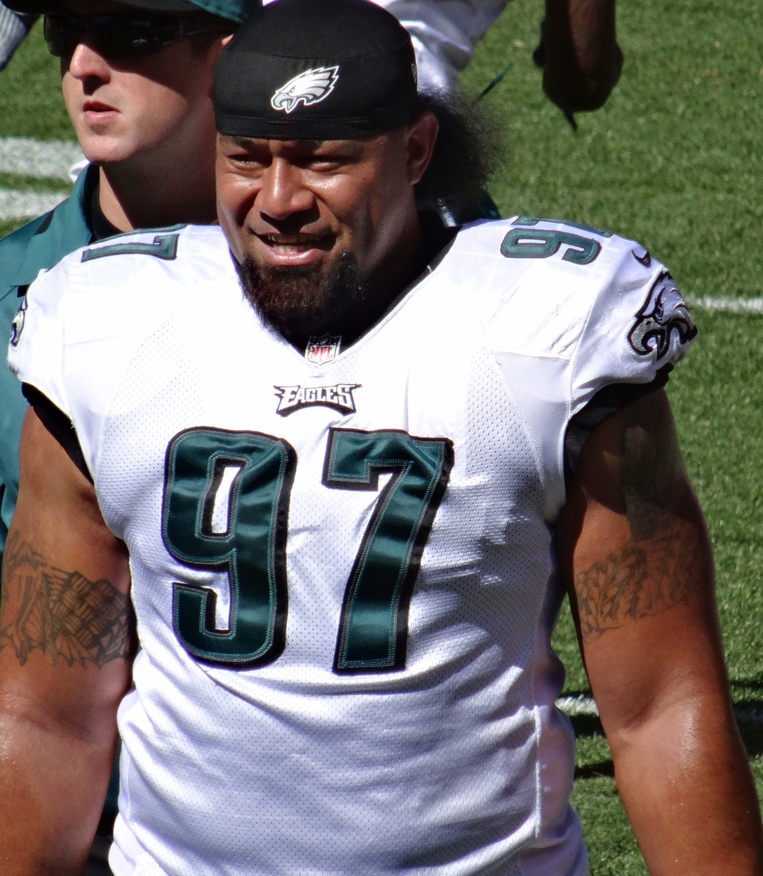 Isaac Sopoaga, a player on the National Football League.